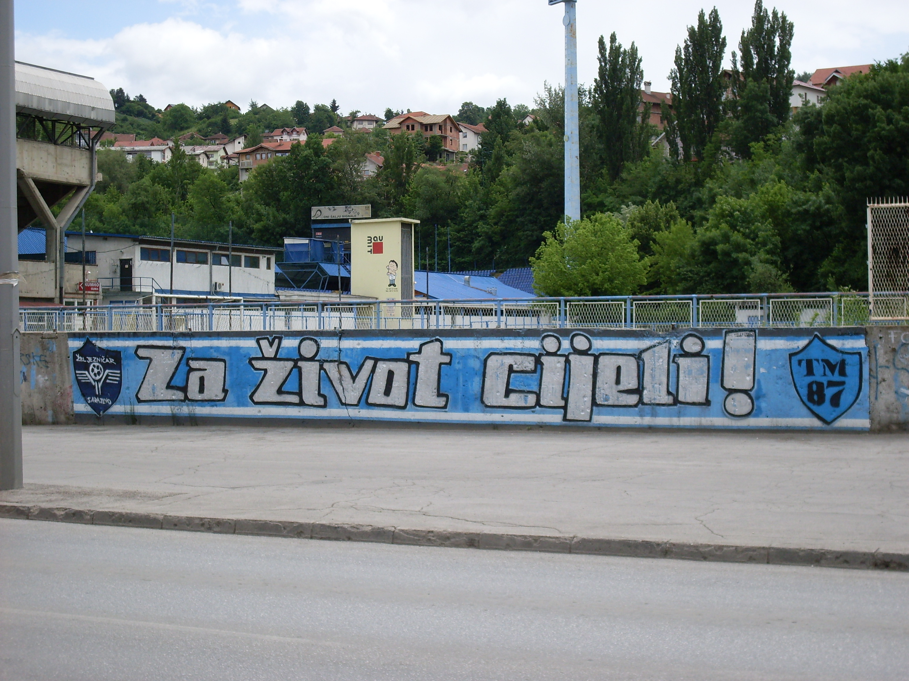 Graffiti near Grbavica stadium